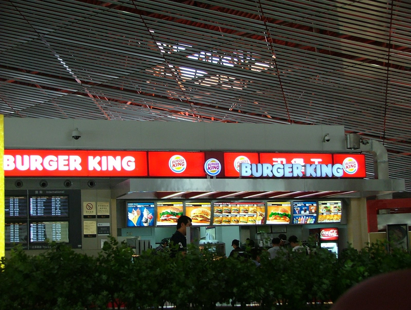 Burger King, Beijing Capital Airport